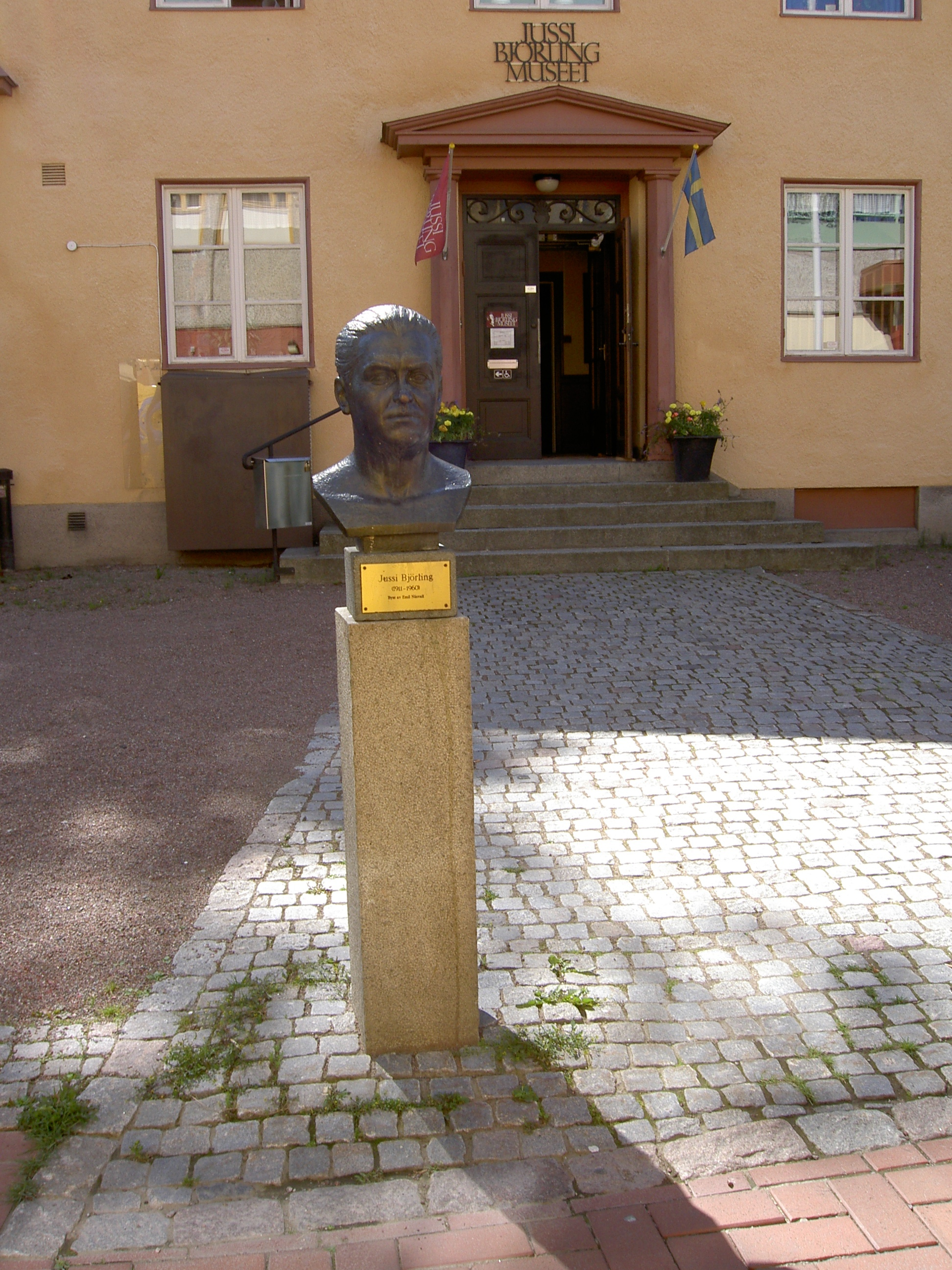 Bust of Jussi Björling and the entrance of Jussi Björling museum, Borlänge, Sweden.